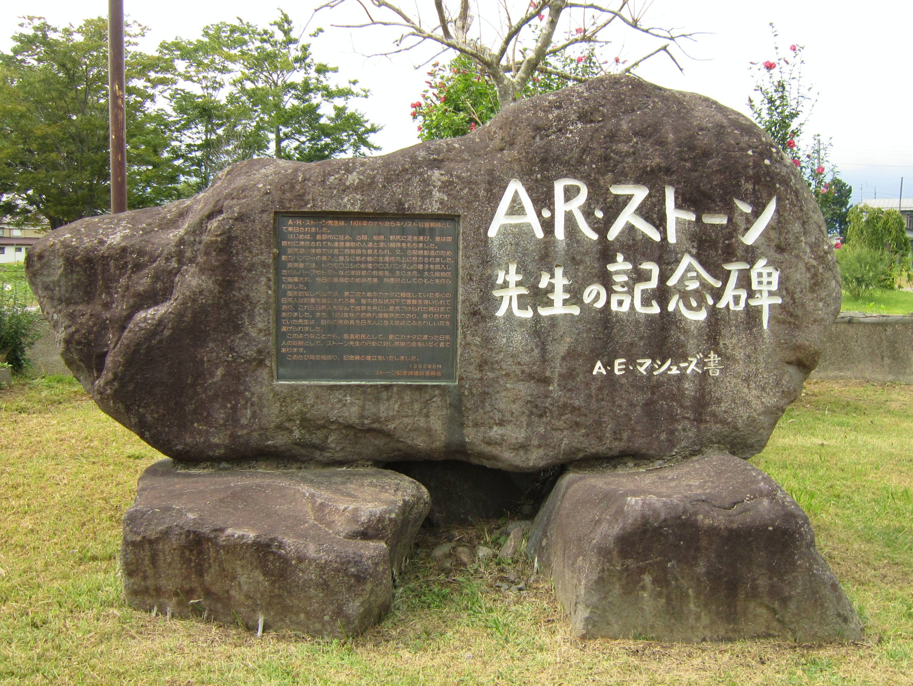 Lake Nojiri Alfred Russell Stone monumet.